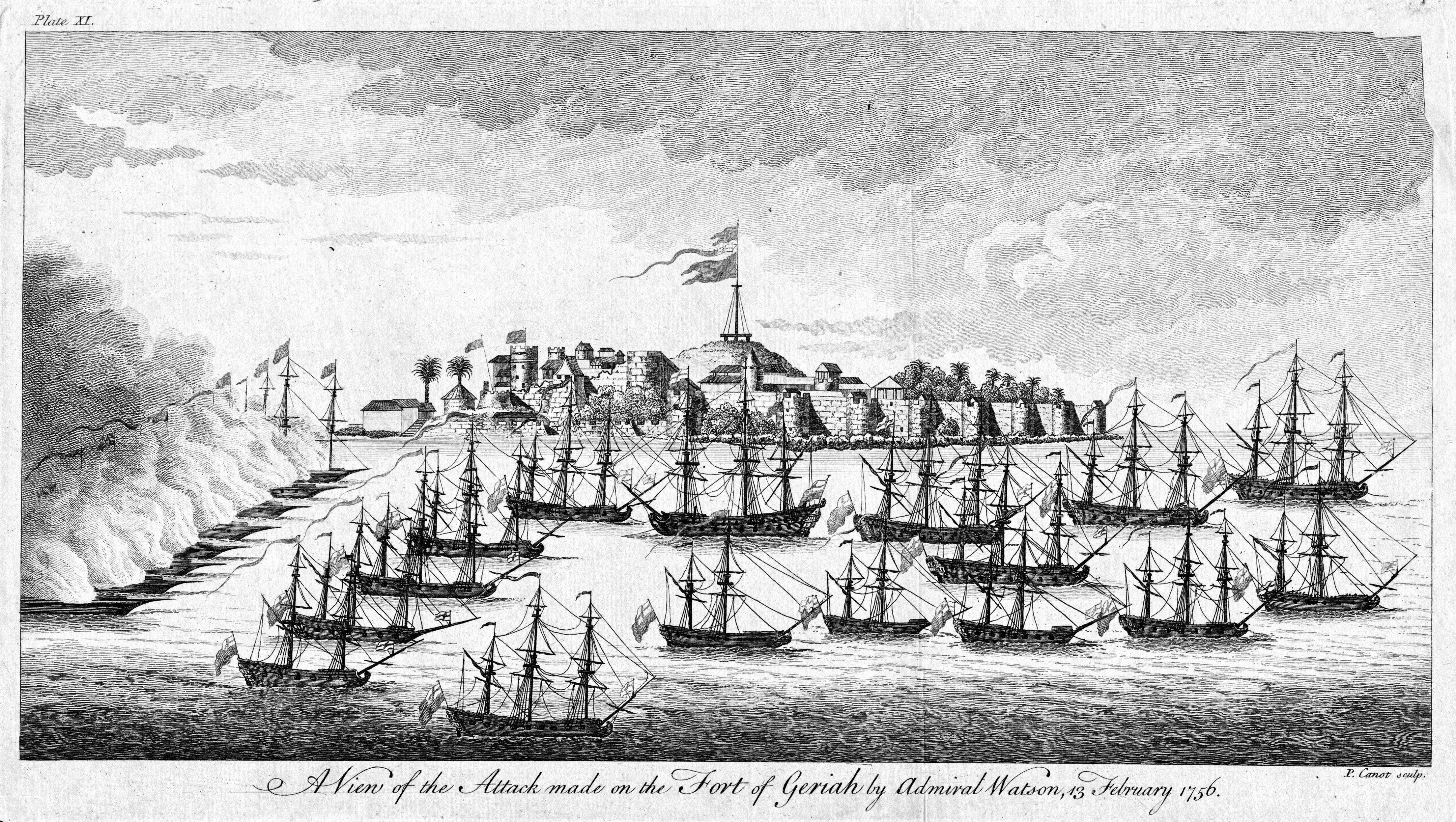 A fleet of ships of a British-led Indo-Portuguese force of the East India Company under the command of Admiral Charles Watson, in formation in front of a fortified island, the stronghold of the Maratha pirate Tulagee Angria, with a flagpole on a hill in the centre and a line of fire barges approaching from the left; plate XI of a series. Etching